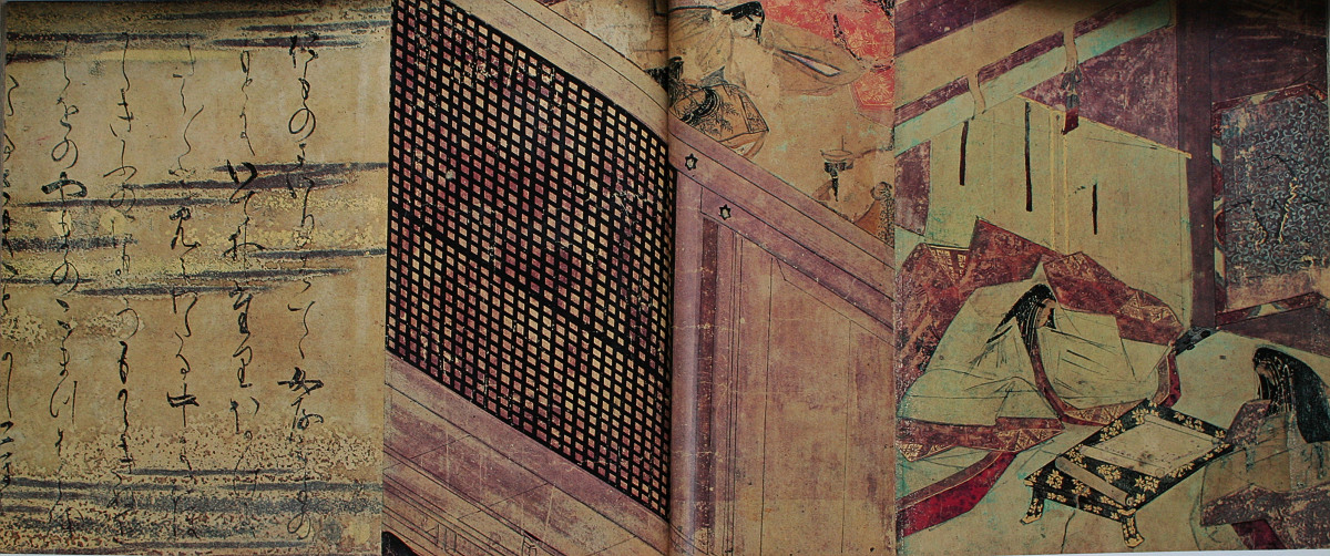 Part of the Murasaki Shikibu Diary Emaki, Hachisuka edition. color and ink on paper, 21cm height.